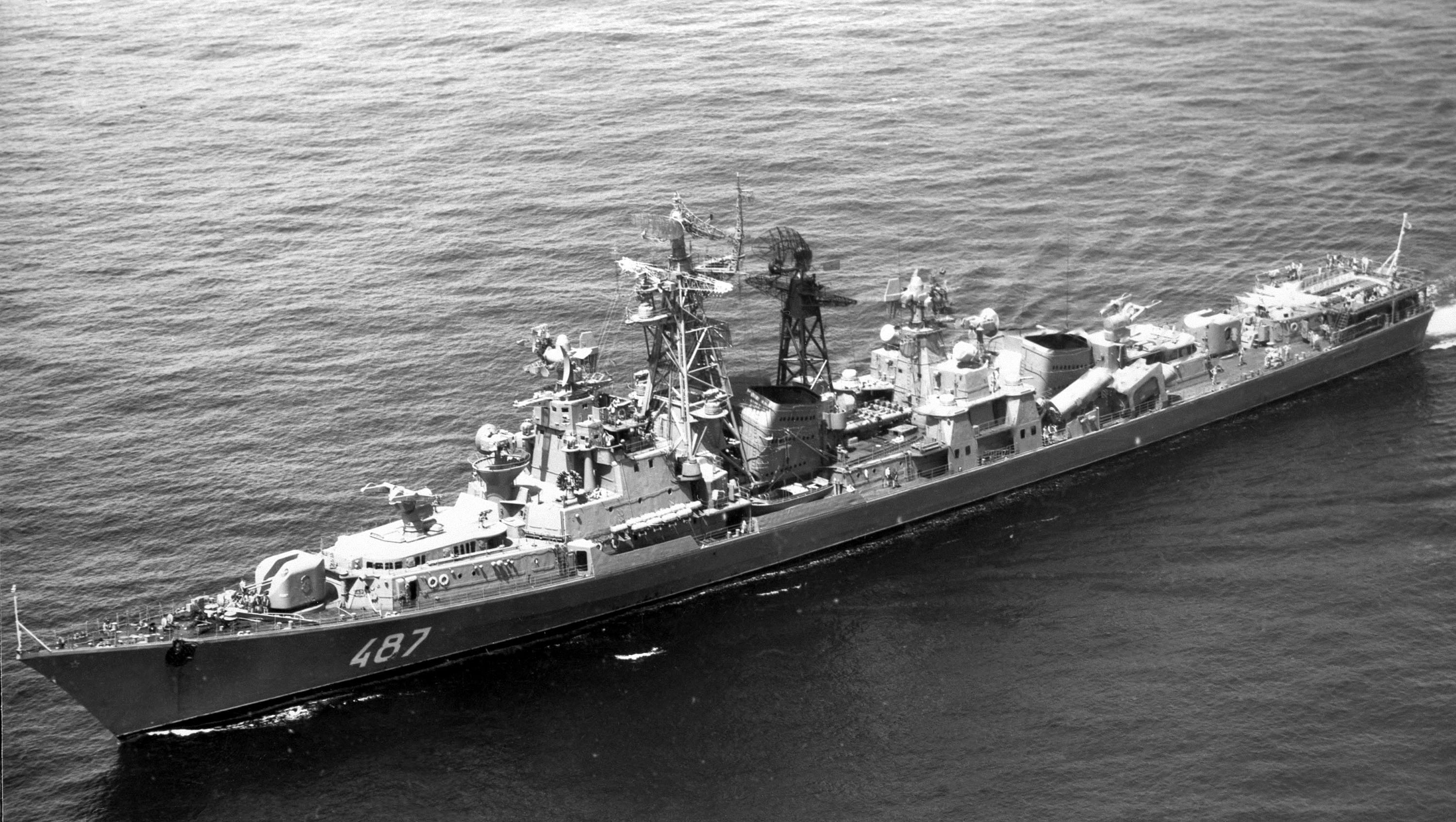 An elevated port bow view of the Soviet Large ASW Ship Slavnyy), projekt 61-MP, Komsomolets Ukrainy class (NATO - Modified KASHIN class guided missile destroyer), underway.